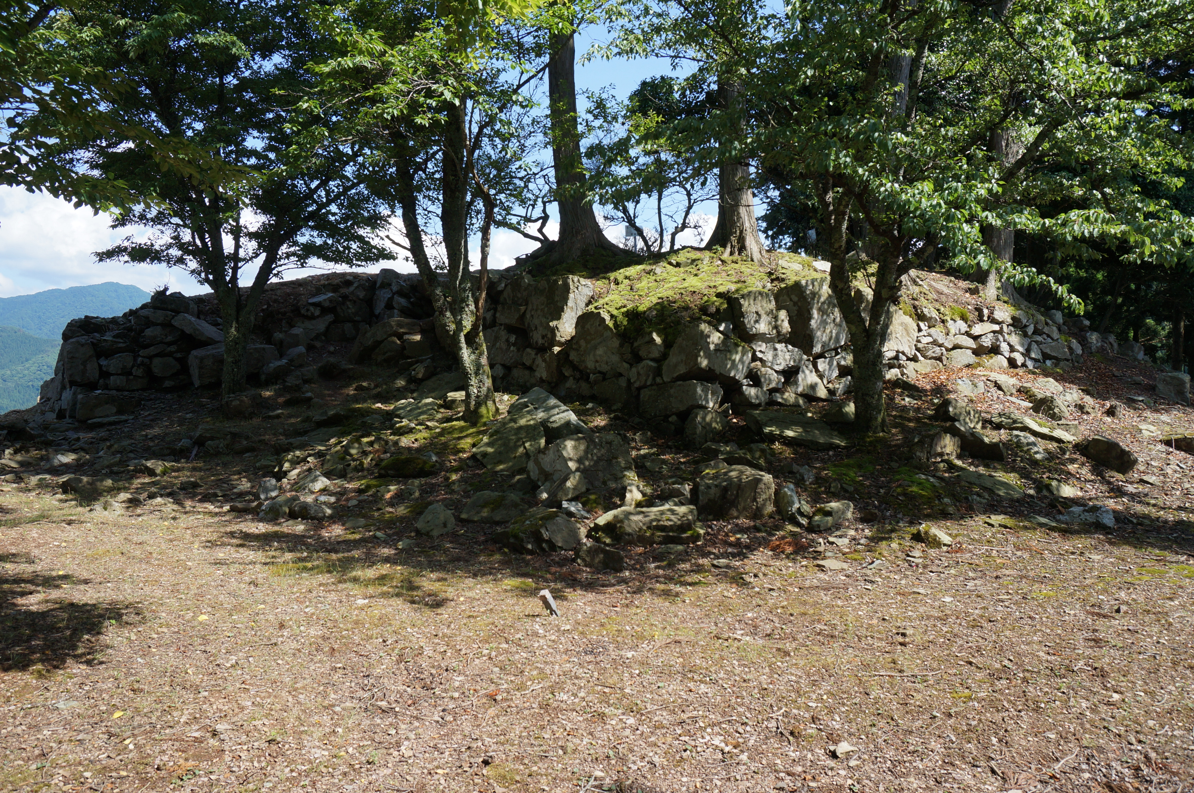 The keep base, Wakasa Oniga-jō